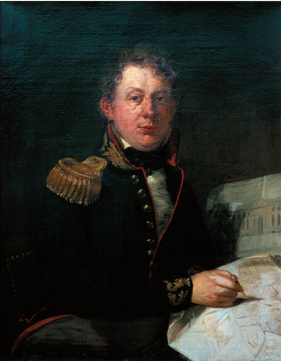 Willem C. Brade door J.W. Pieneman